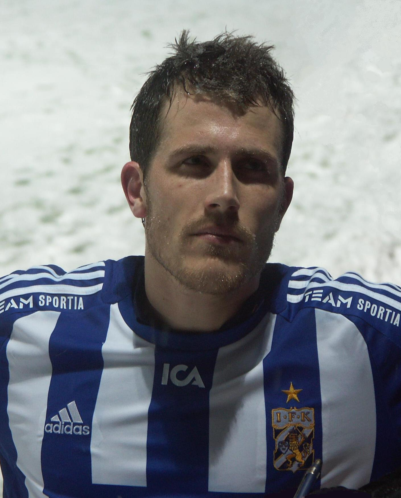 Tobias Hysén after scoring a hat-trick for IFK Göteborg in a friendly pre-season match in Göteborg against Fredrikstad FK.